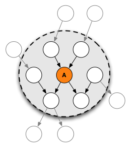 In a directed model, Markov Blanket of a node includes its parents, its children and the parents of its children.